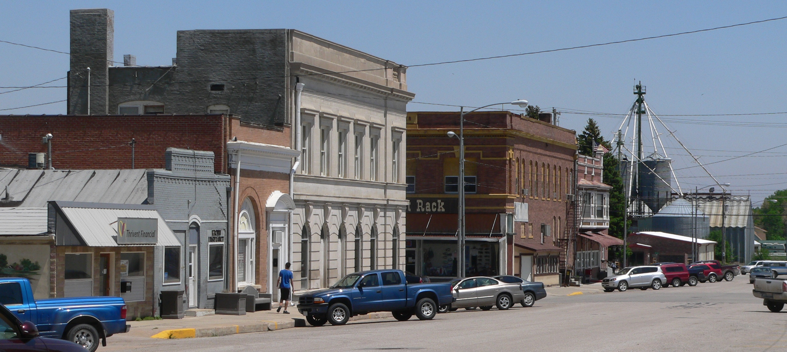 North side of West Church Street in Albion, Nebraska; looking eastward from about 5th Street.